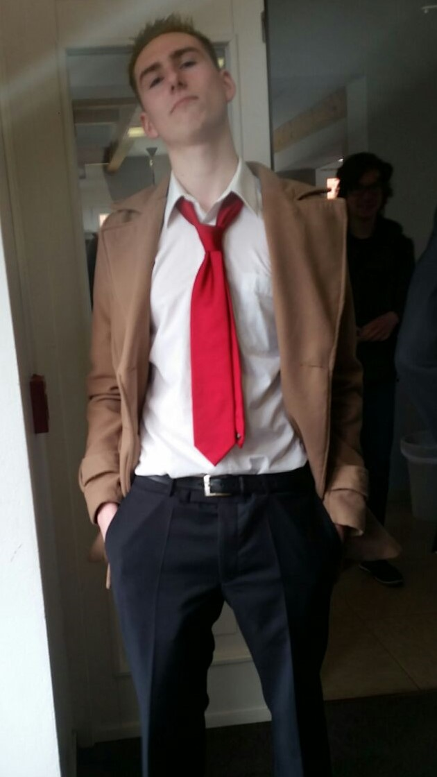 Fan cosplaying the comic book character John Constantine/Hellblazer.